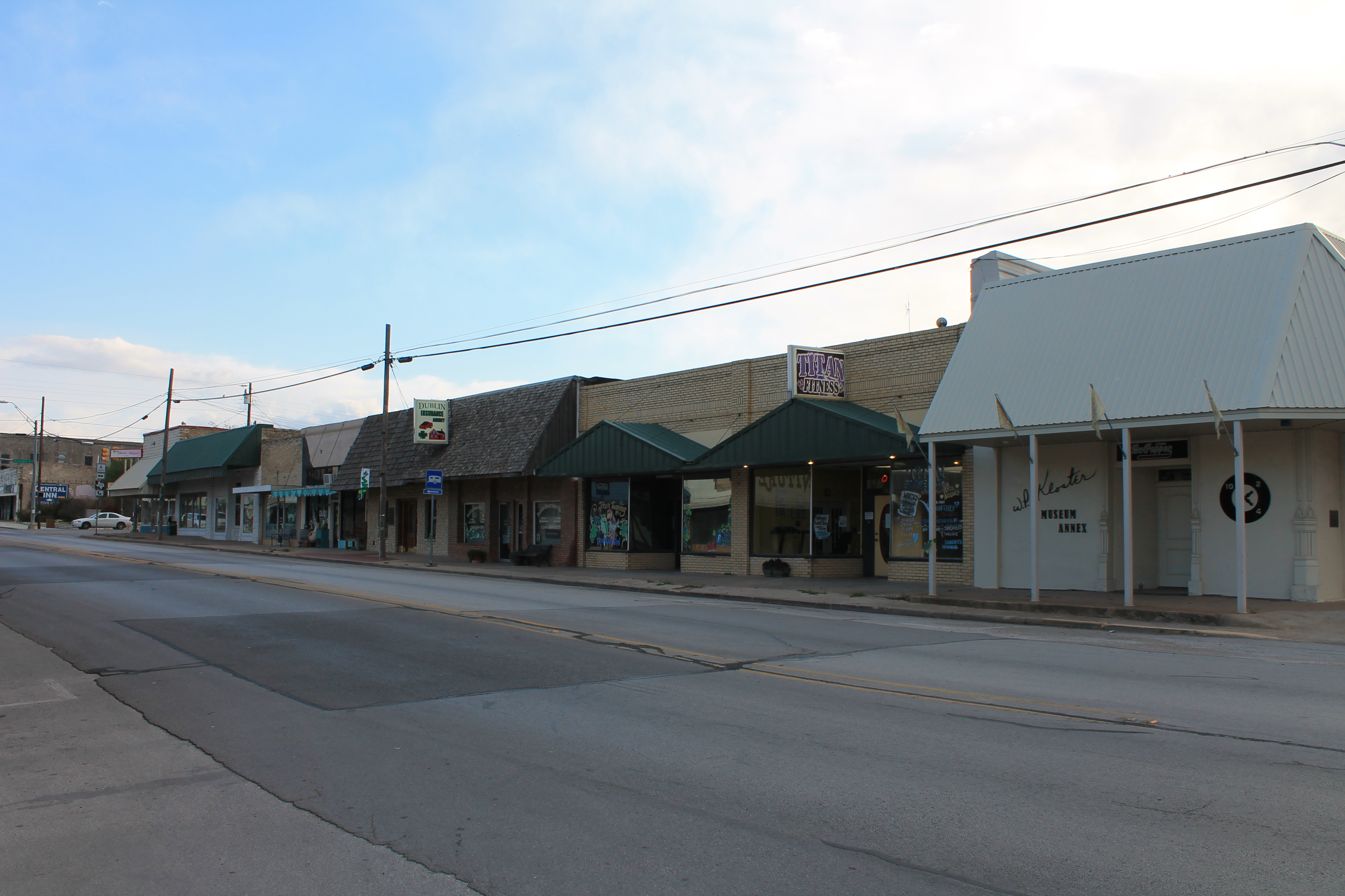 Dublin, Texas